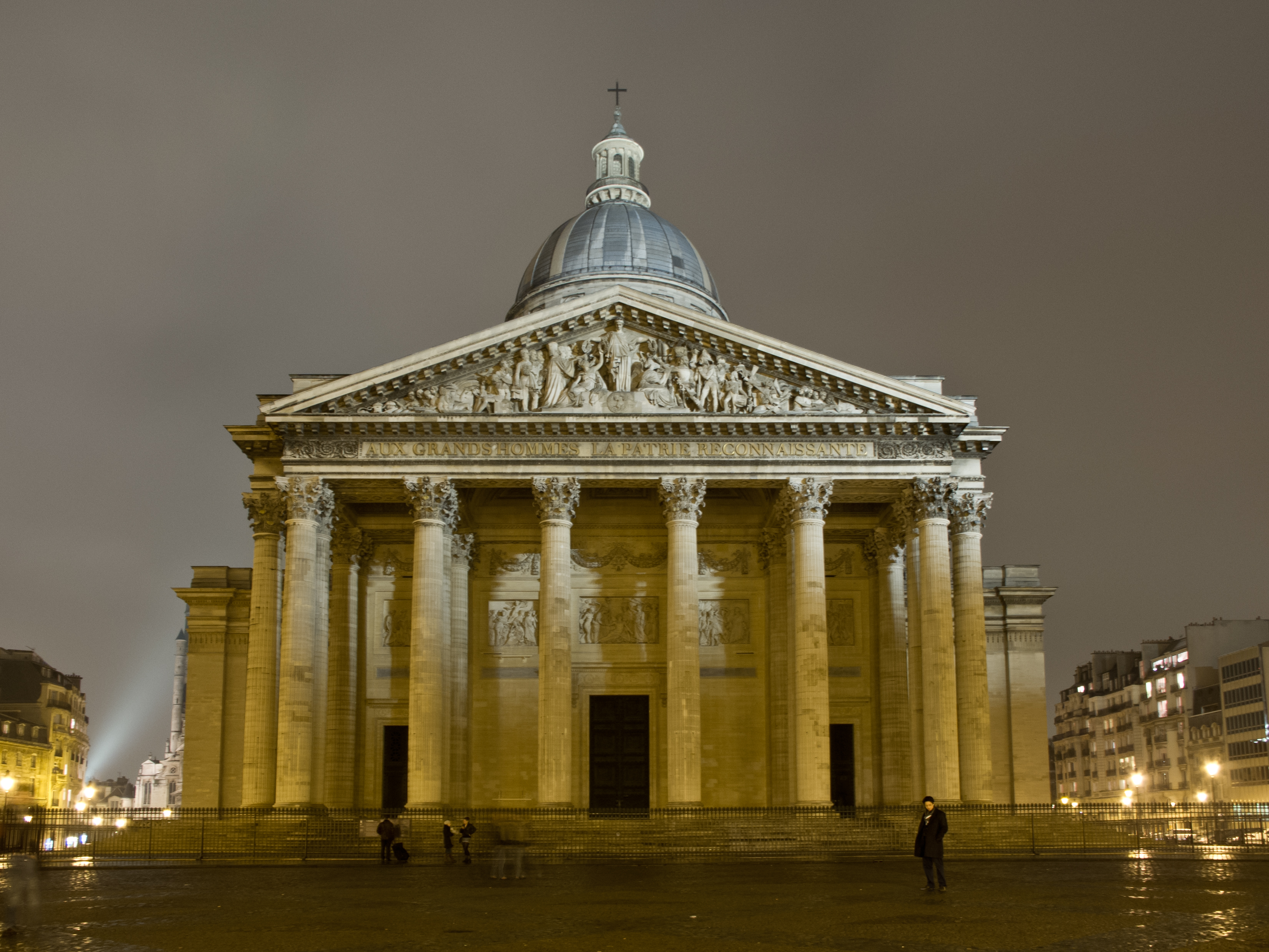 Night view of Pantheón, Paris, France